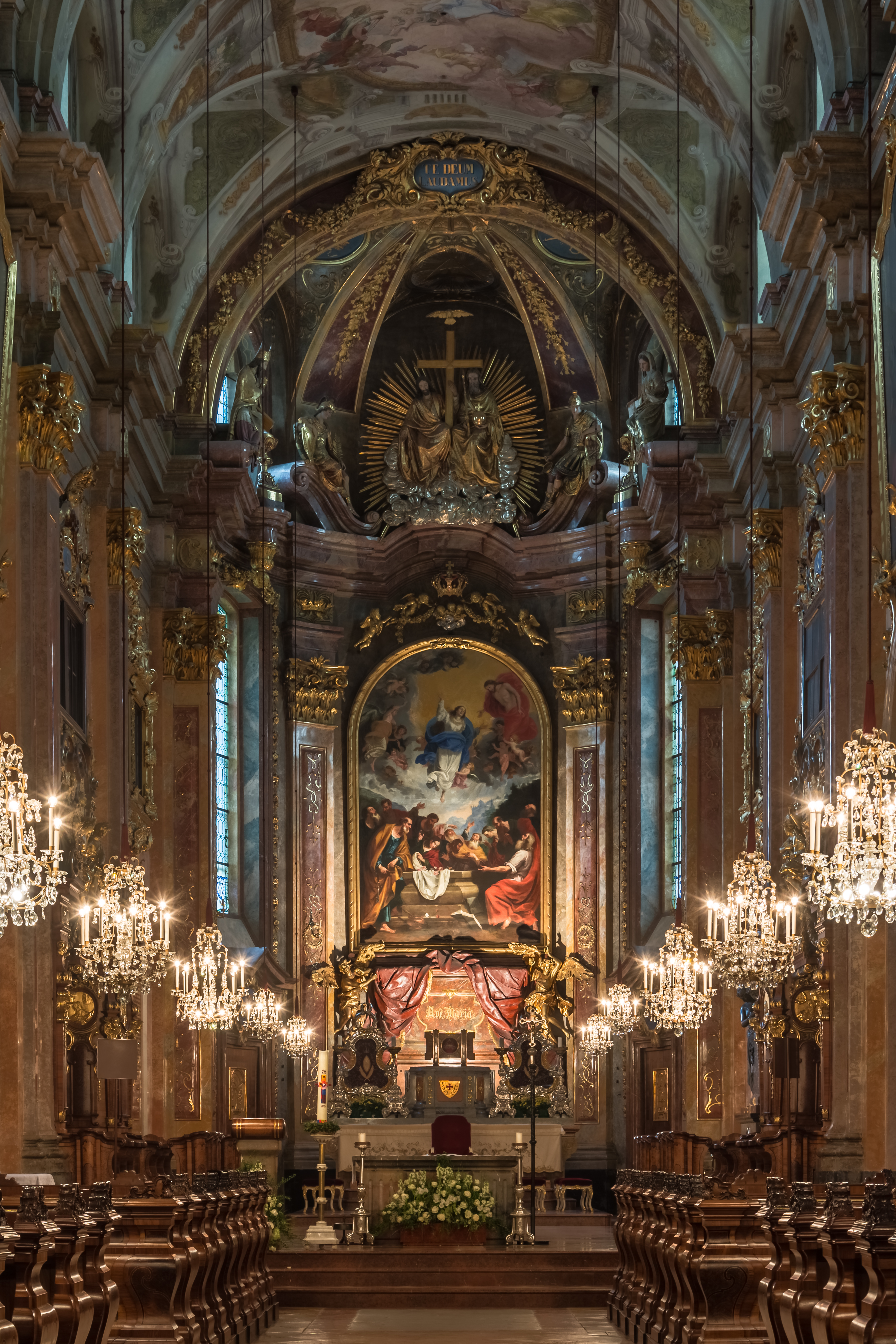 High altar of Sankt Pölten Cathedral, Lower Austria. Altarpiece Assumption of Mary by Tobias Pock (1658).